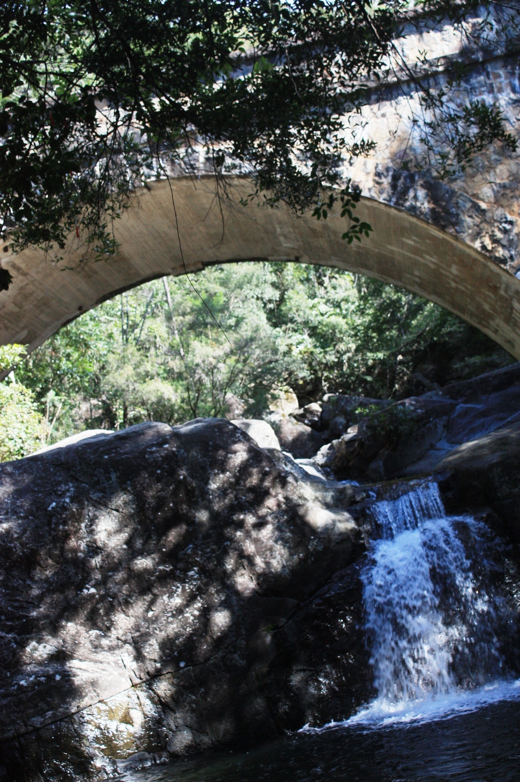 A waterfall and waterhole at Little Crystal Creek, Queensland, as well as the Little Crystal Creek Bridge